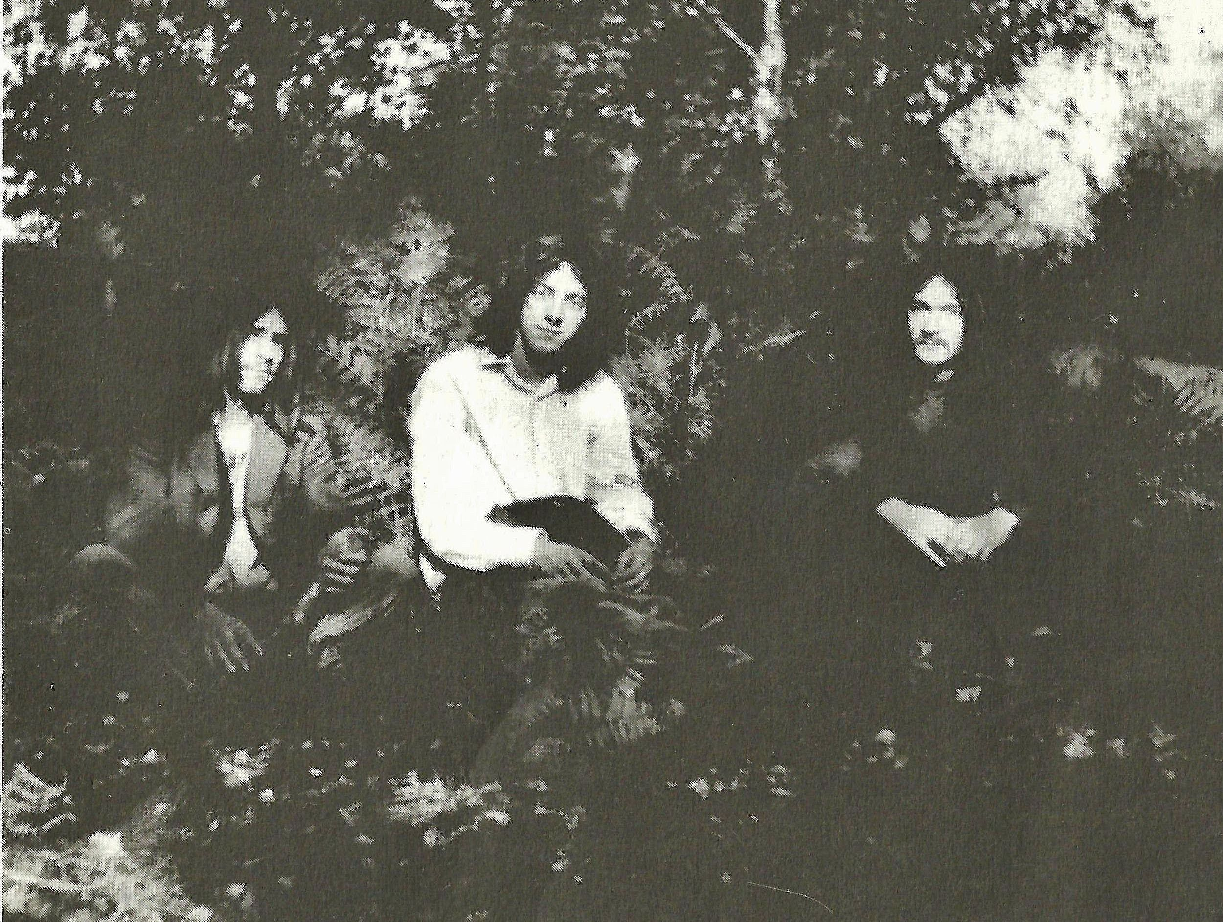 Psych-Folk band Forest (from left to right) Adrian Welham, Dez Allenby and Martin Welham